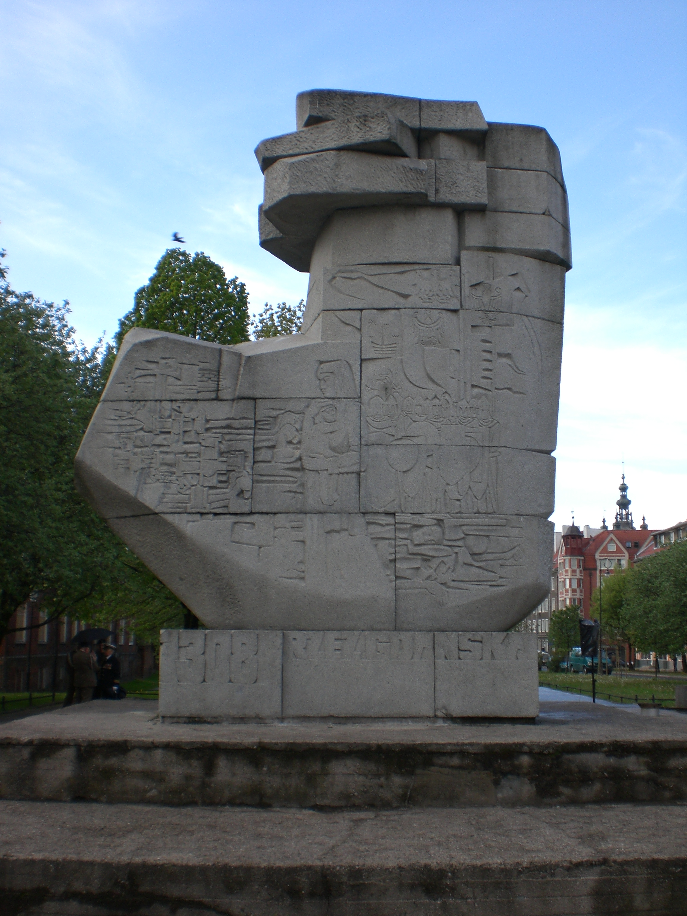 Monument to the Poles who died for the Gdansk Polishness